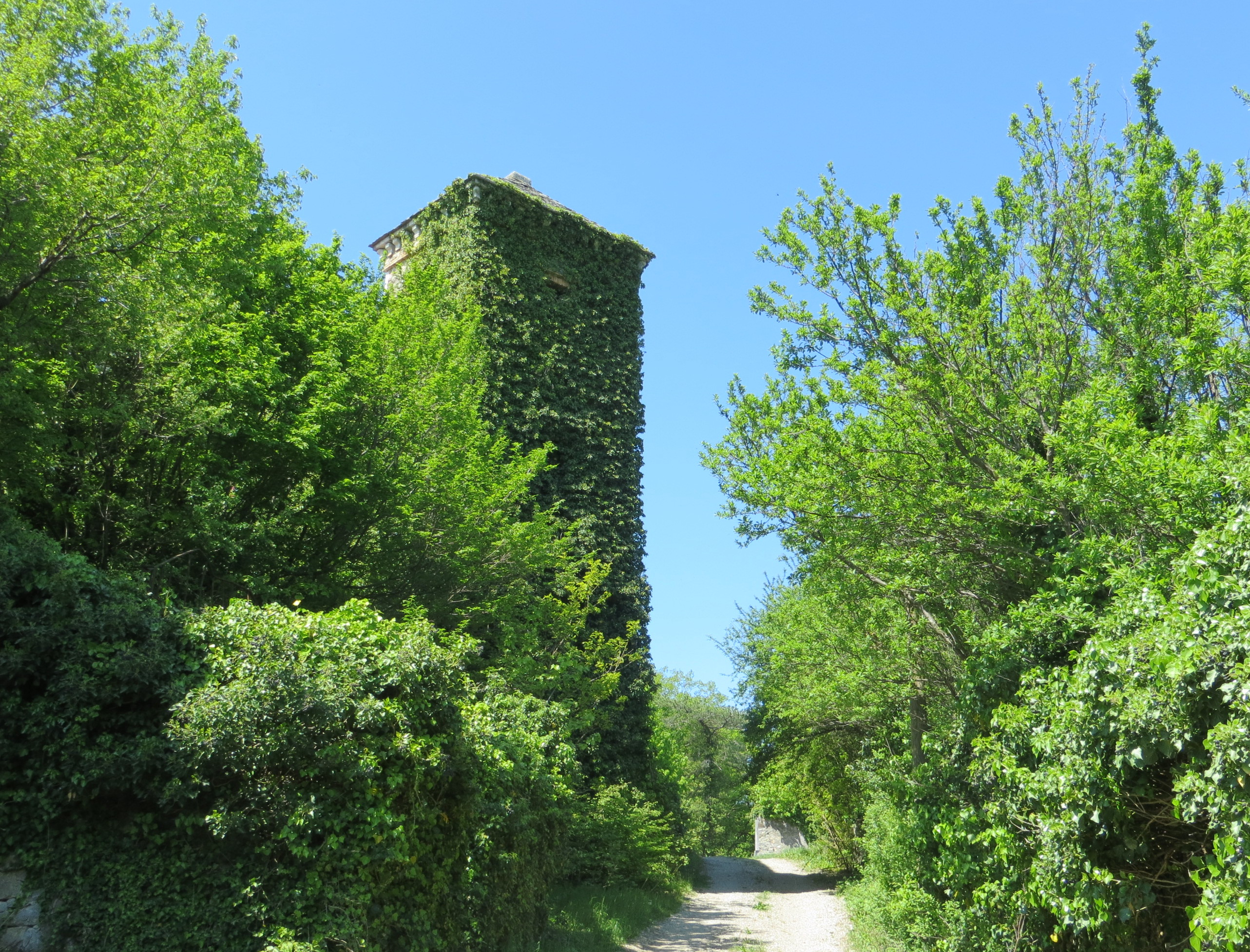 Leutemberg Castle in Lože, Municipality of Vipava, Slovenia